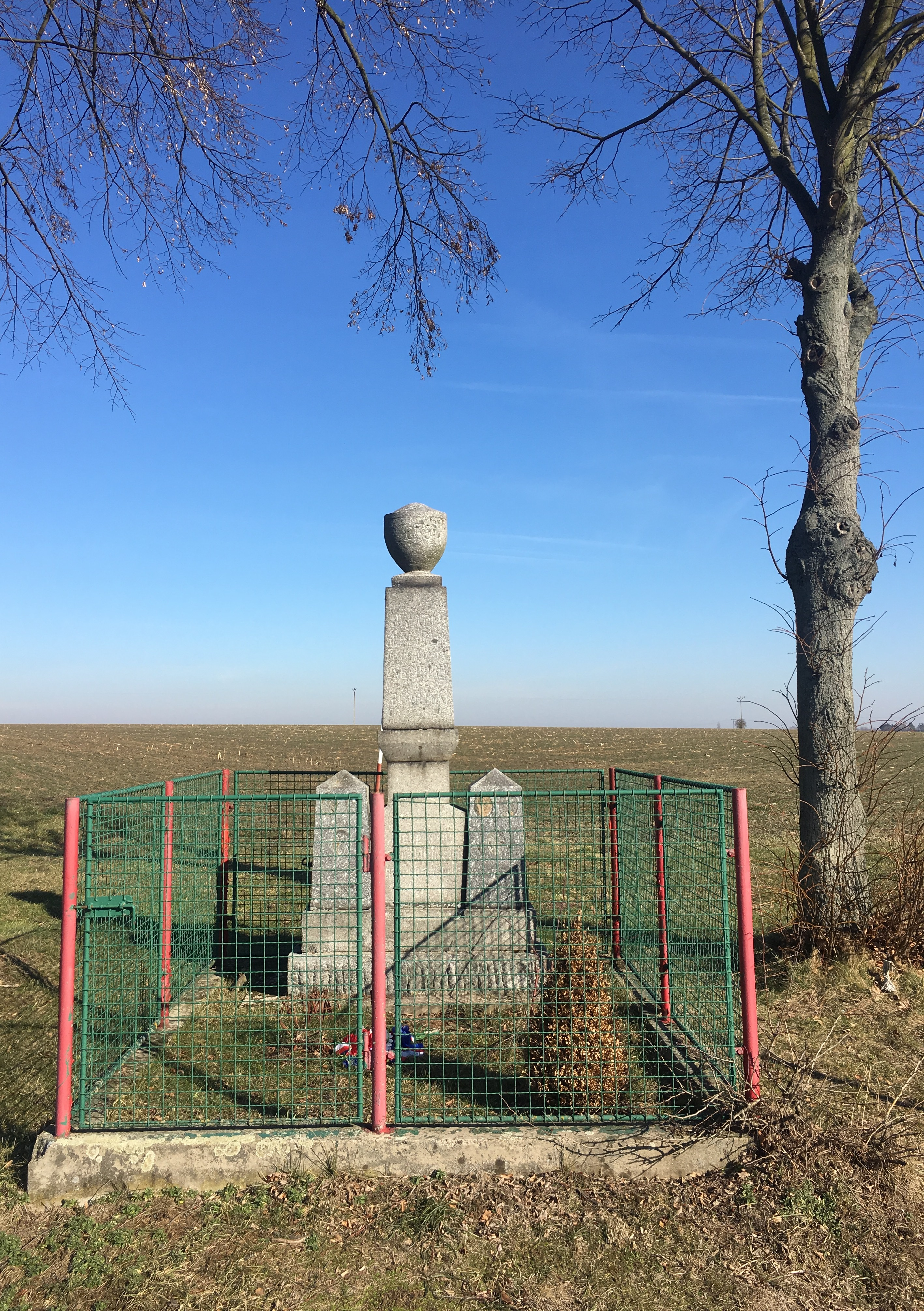 Pomník obětem 1. světové války, Nechyba (Úžice)